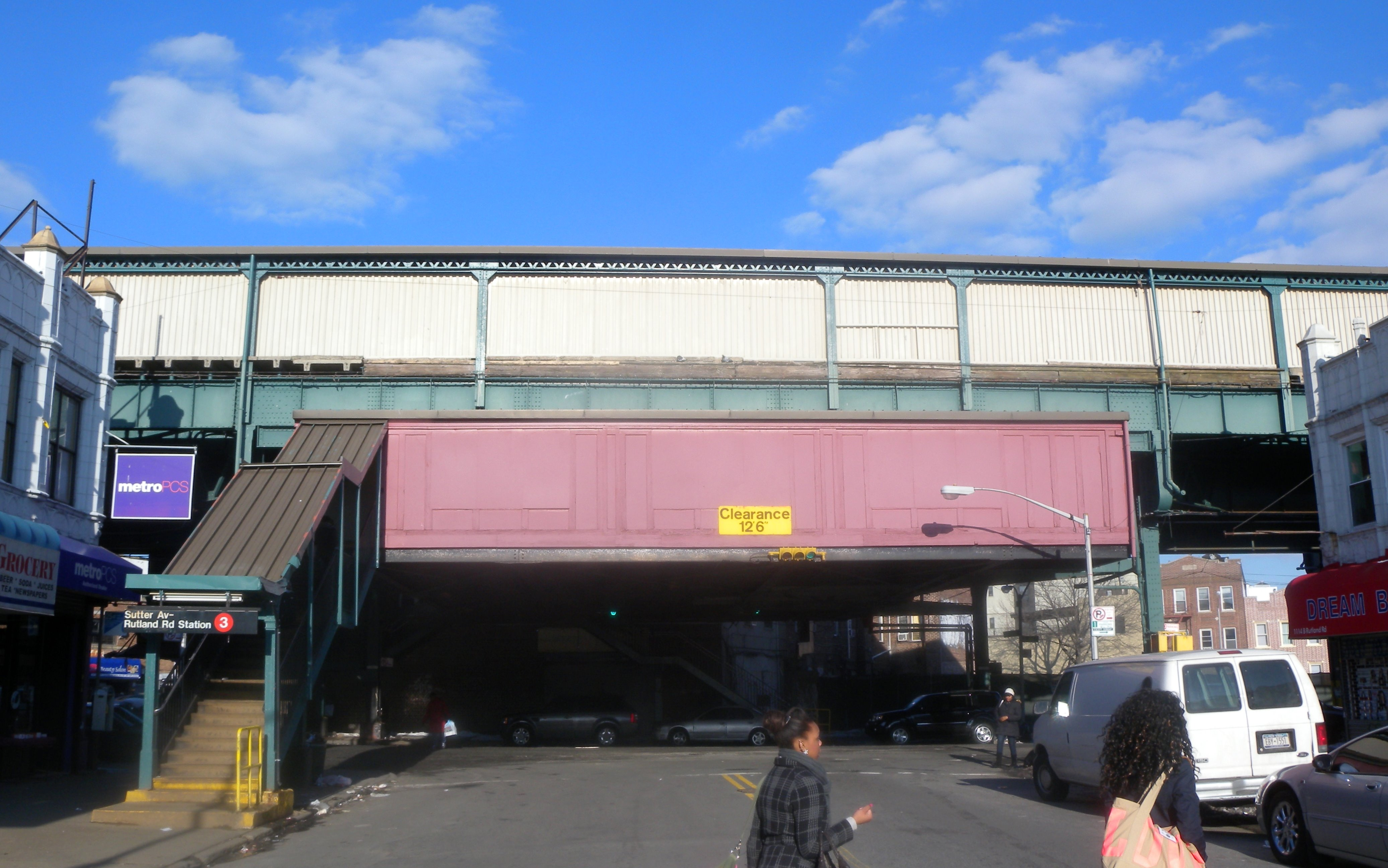 Looking northeast at Sutter Rutland station on a sunny afternoon. ZIP 11212.